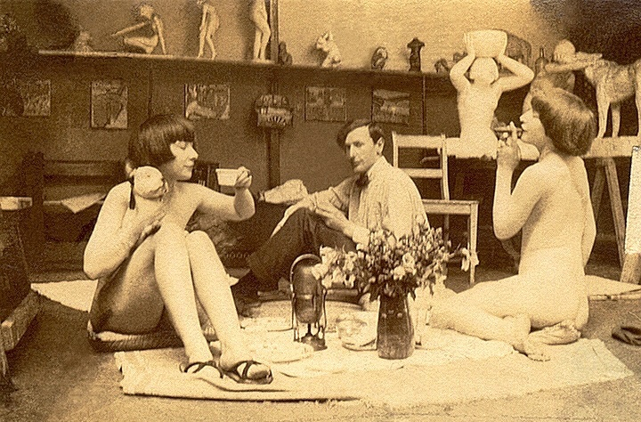 Coffe break between sittings, in american sculptor Cecil Howard's studio, in 1910-13. The two models are, on the left Lucy Vidil-Krohg and on the right Céline Coupet-Howard. In the center, norwegian painter Per Krohg.